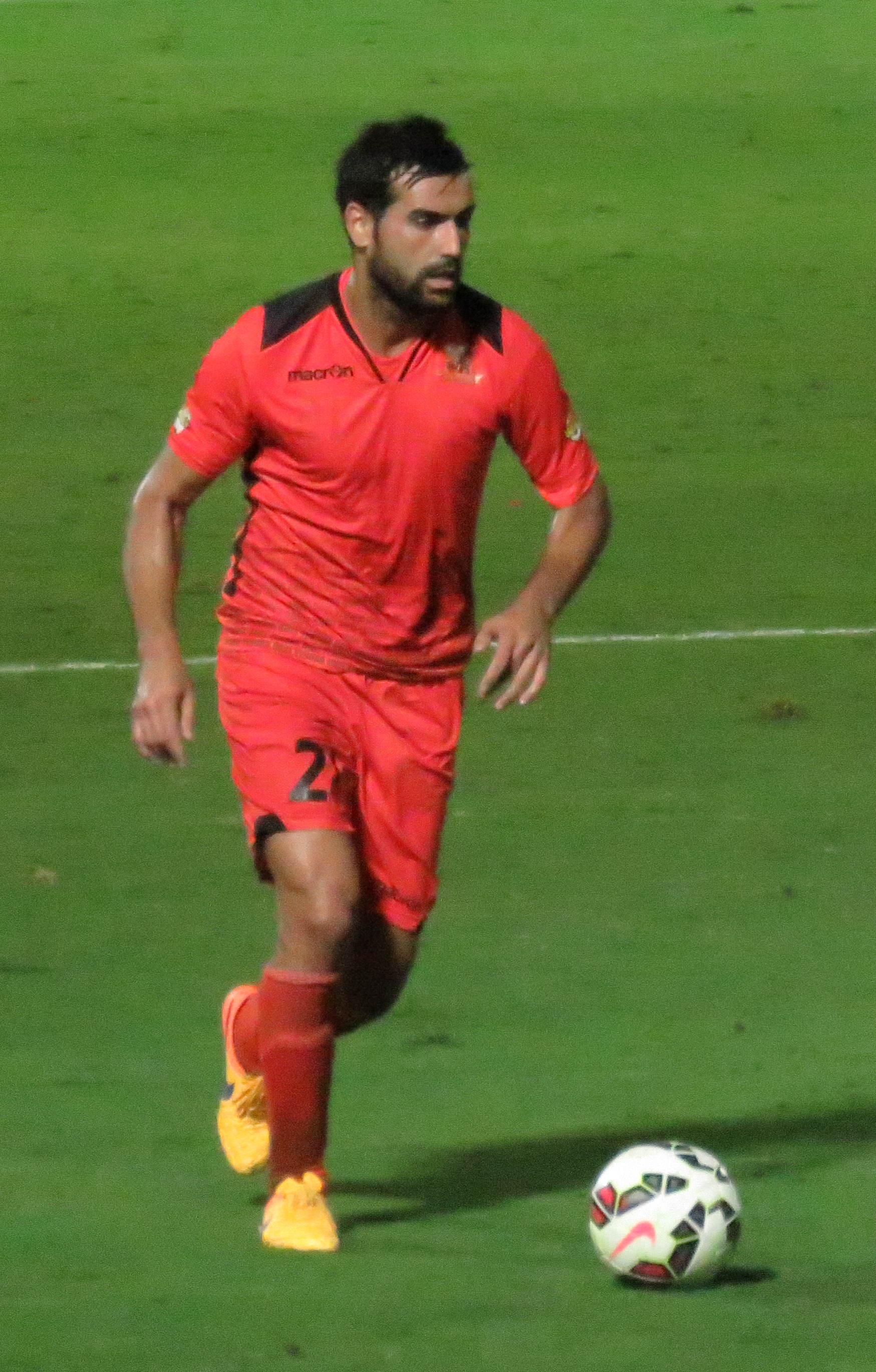 Bnei Yehuda Tel Aviv vs. Hapoel Acre - August 31, 2015